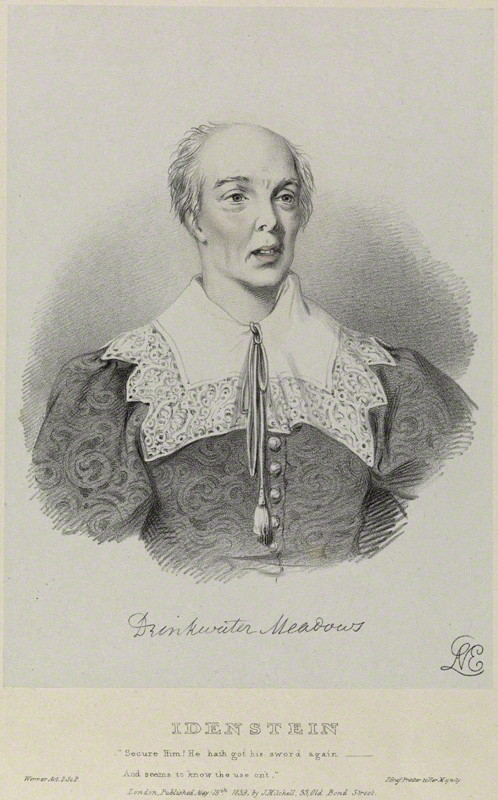 Hand-coloured lithograph of Drinkwater Meadows as Idenstein in 'Werner'